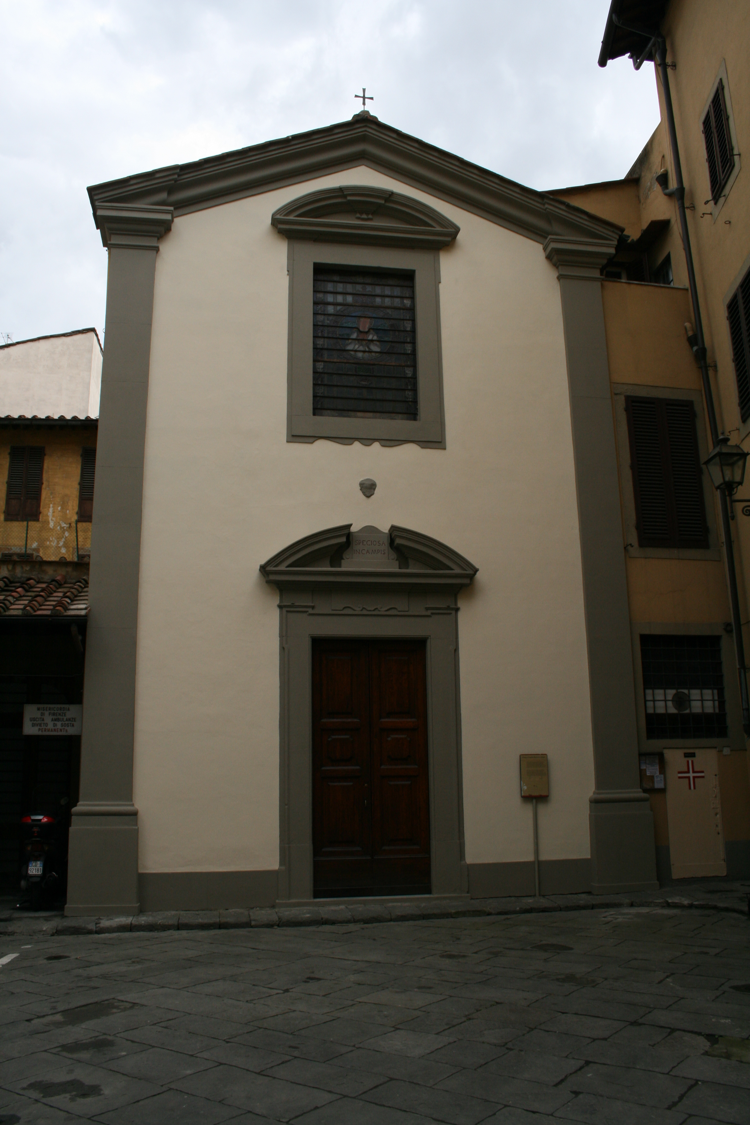 Santa Maria in Campo Church- Florence